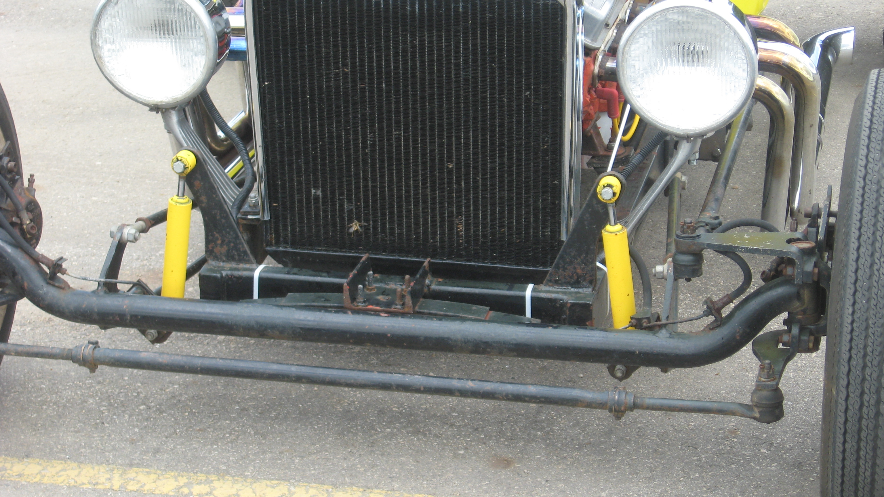 front axle detail of T-bucket custom, shot at local car show/swap meet